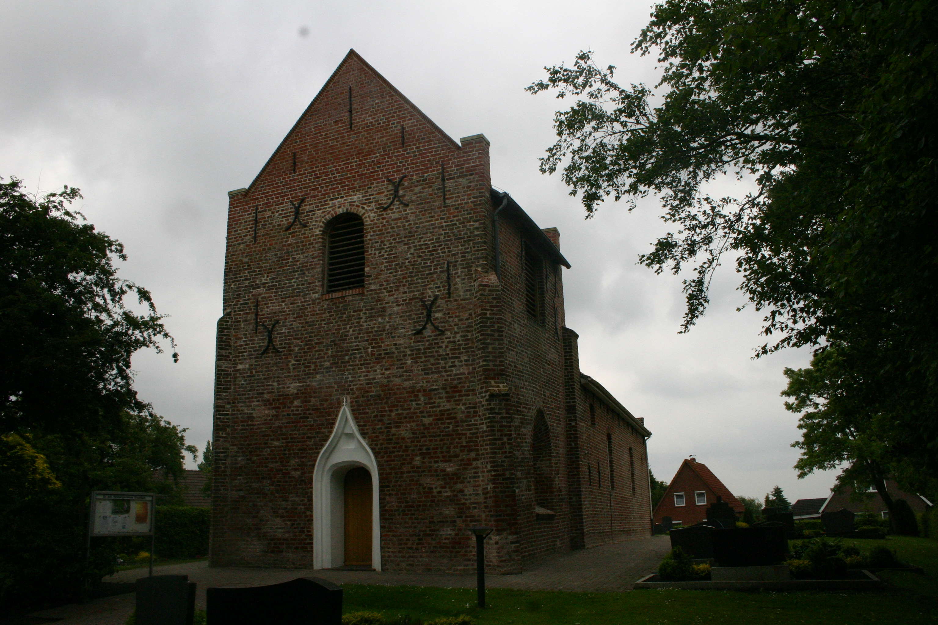 Historic church in Siegelsum, district of Aurich, East Frisia, Germany